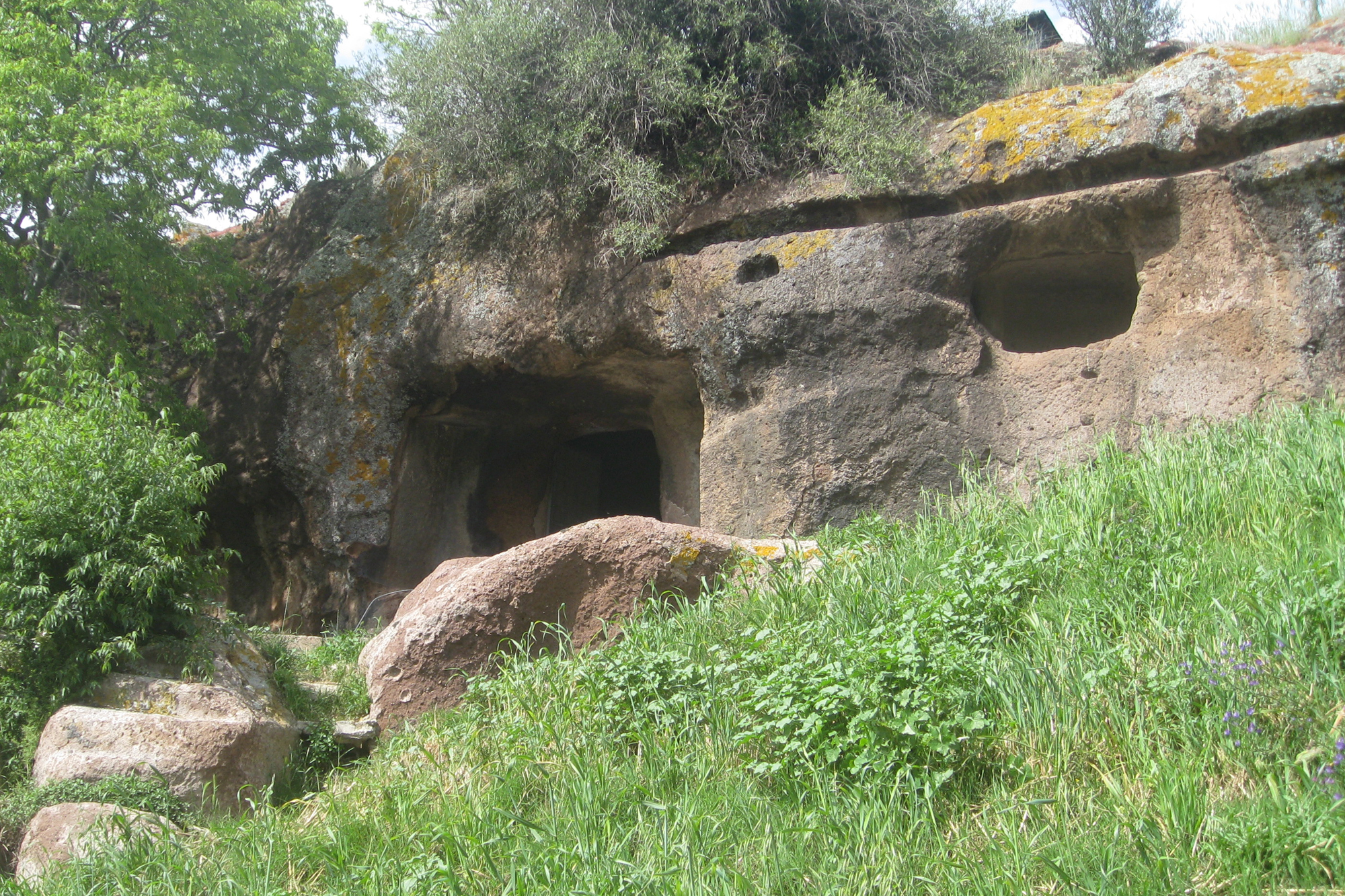 Necropolis Sant'Andria Priu, Sardinia